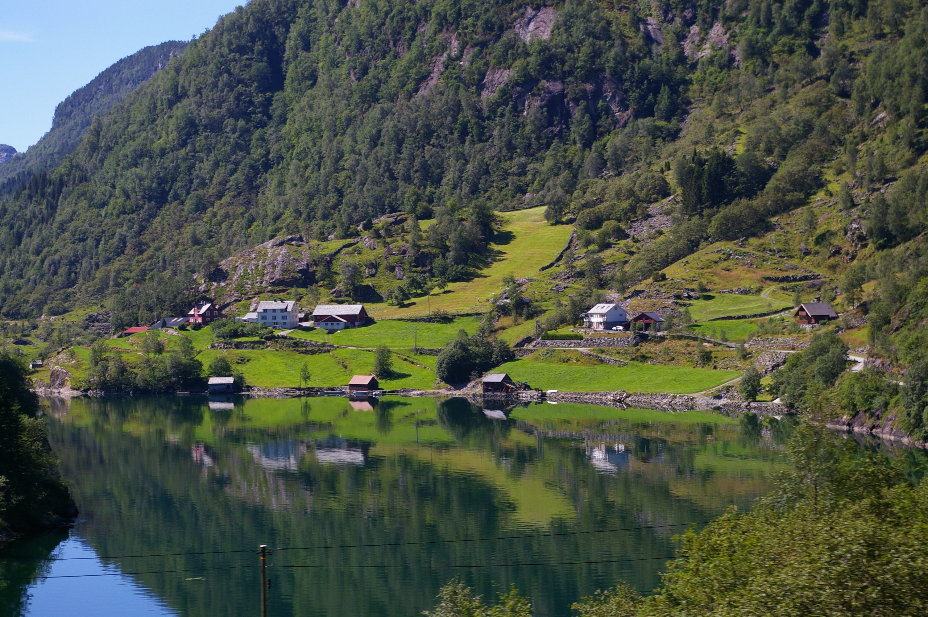 Haugsværsfjorden in Masfjorden, Hordaland, Norway